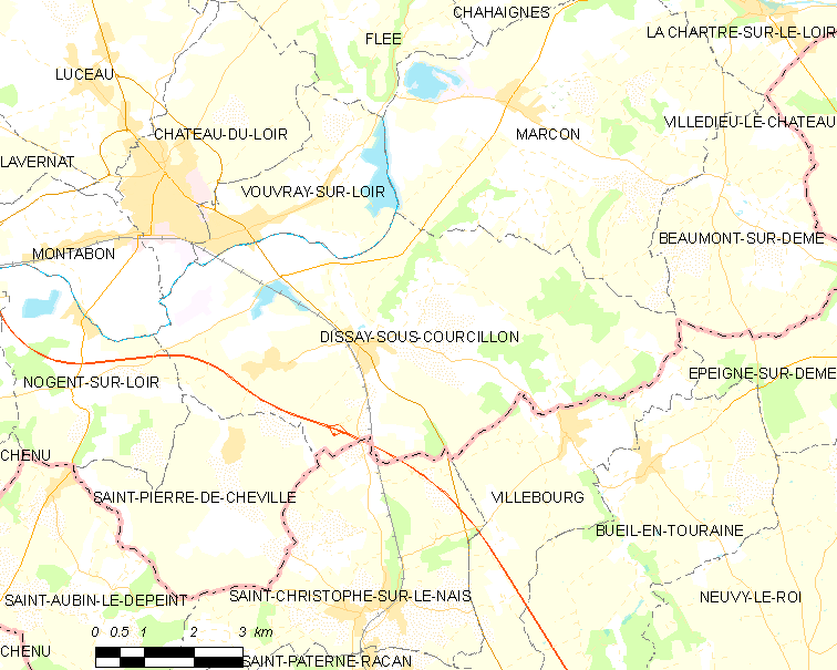 Map of French municipality